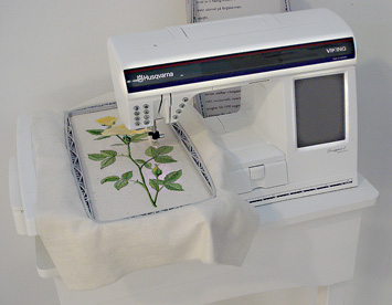 Husqvarna Viking sewing machine, photo taken at the Husqvarna Museum, Huskvarna, Sweden